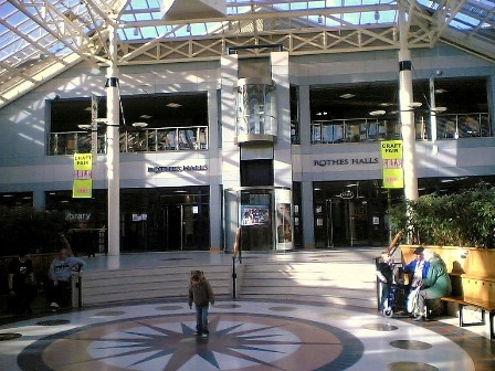 Rothes Halls, Glenrothes, Fife